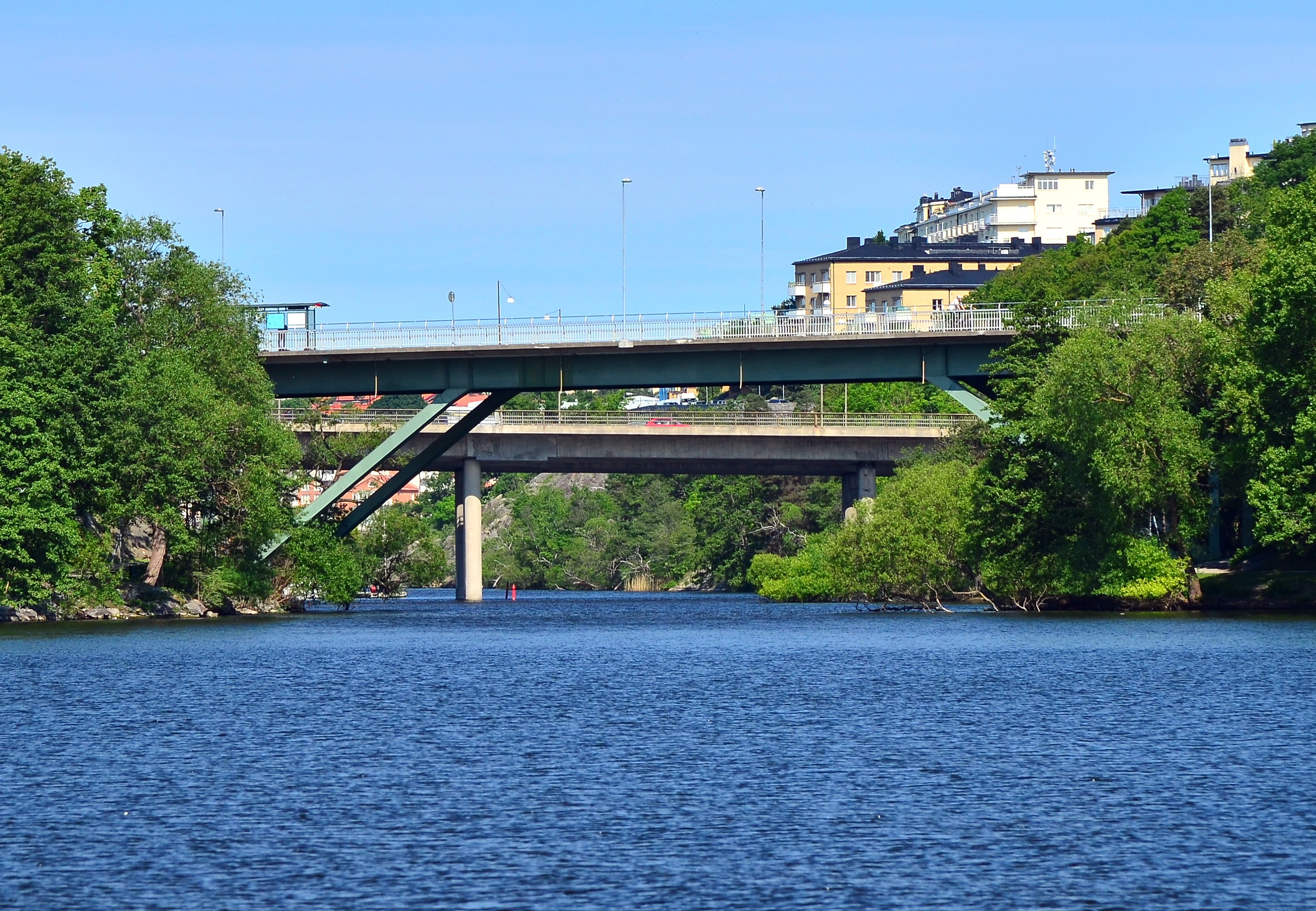 Mariebergssundet between the isle Lilla Essingen and Marieberg on Kungsholmen in Stockholm, Sweden.